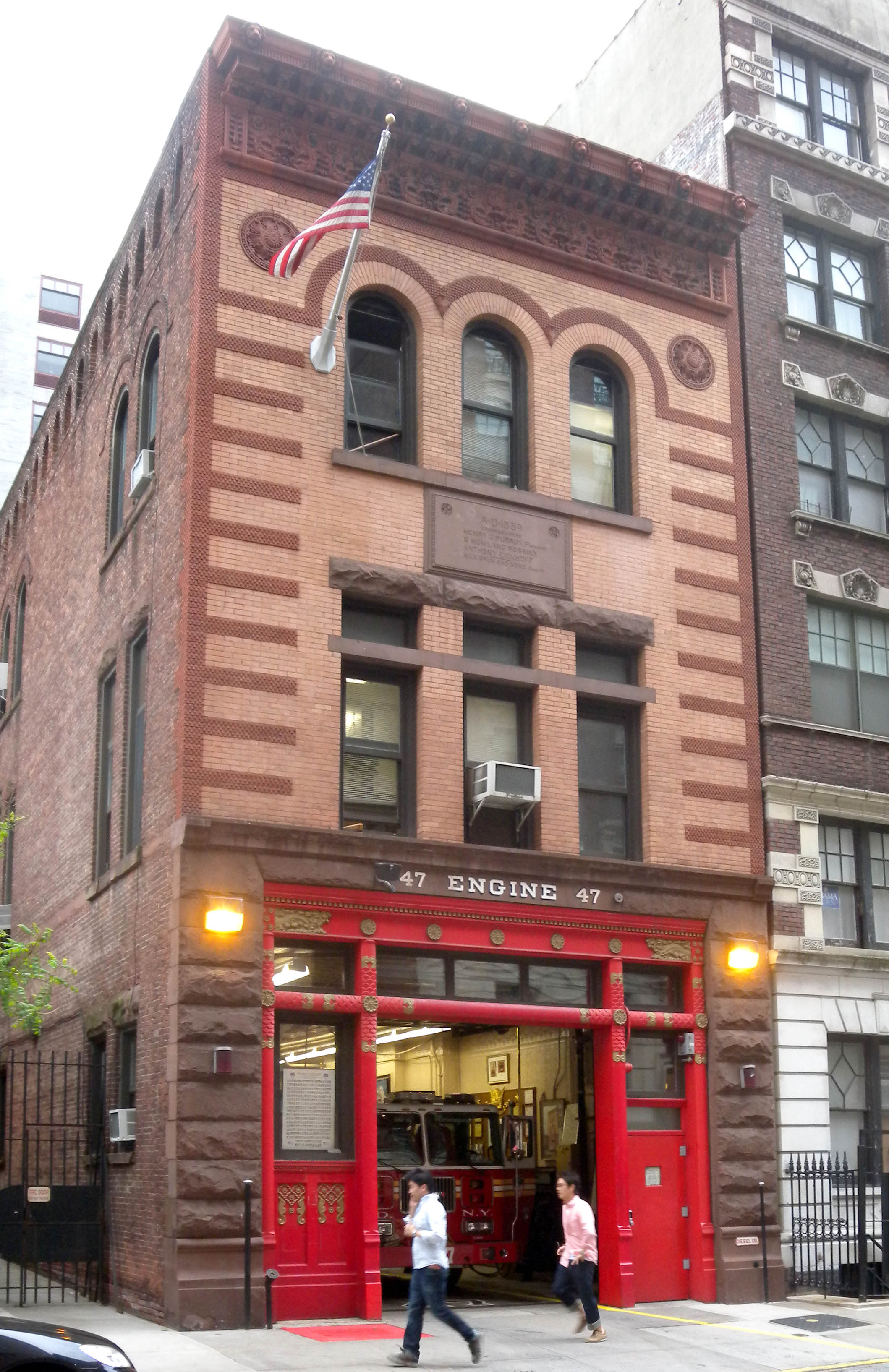 Looking southwest across 113th Street at Engine 47 on a cloudy afternoon. NYCLPC designation 1997. See also File:Engine 47 500 1889 plaque jeh.jpg